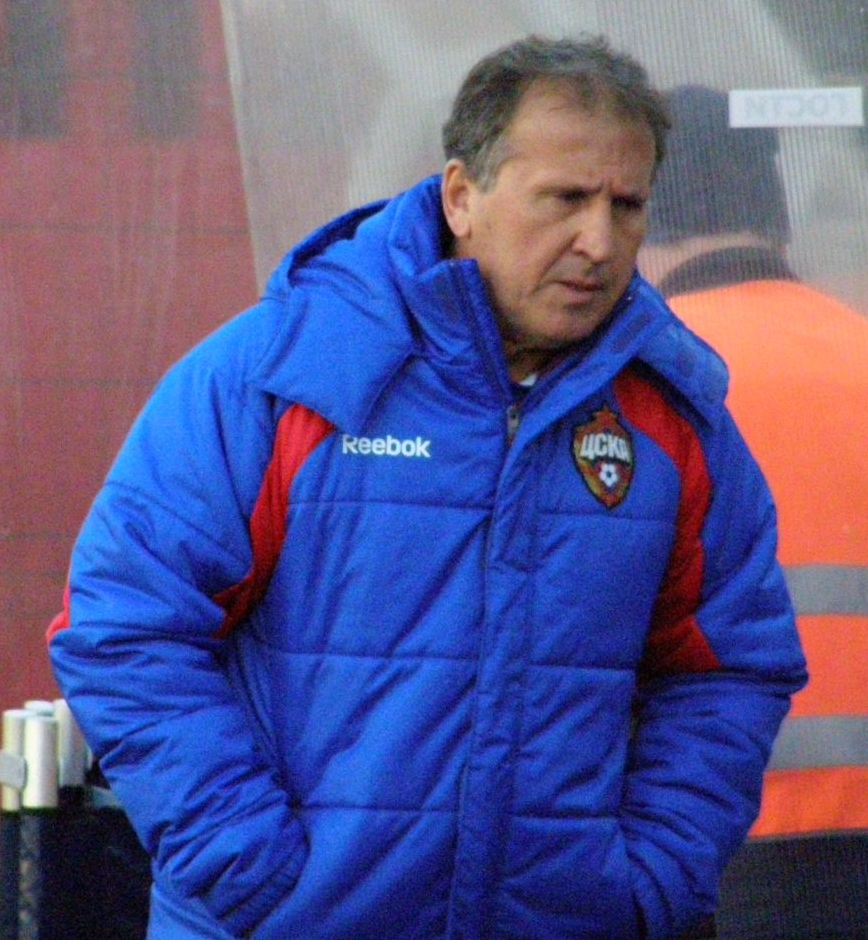 Zico as a head coach of PFC CSKA Moscow